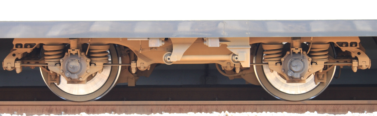 Type WDT202 bogie truck of JRW Shinkansen series 100 (122-5005 / Nishi-Akashi Station).